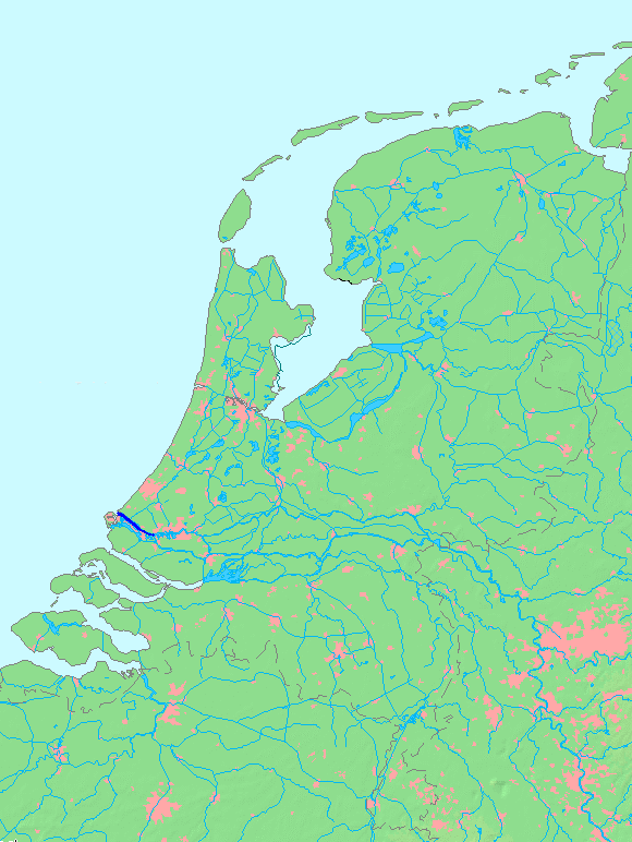 Location of a waterway (river/canal) in the Netherlends